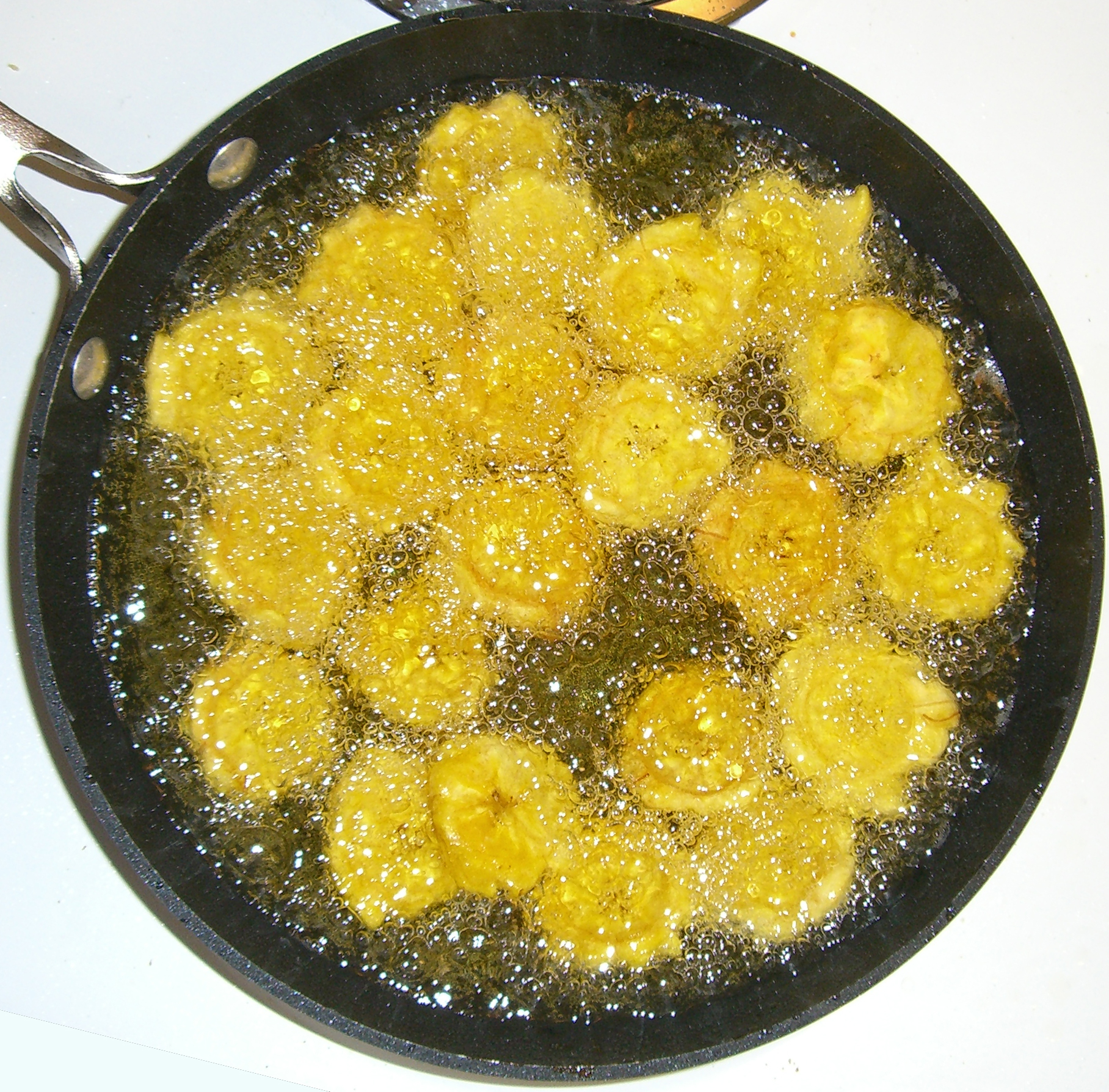 Plantains frying in a pan of corn oil.